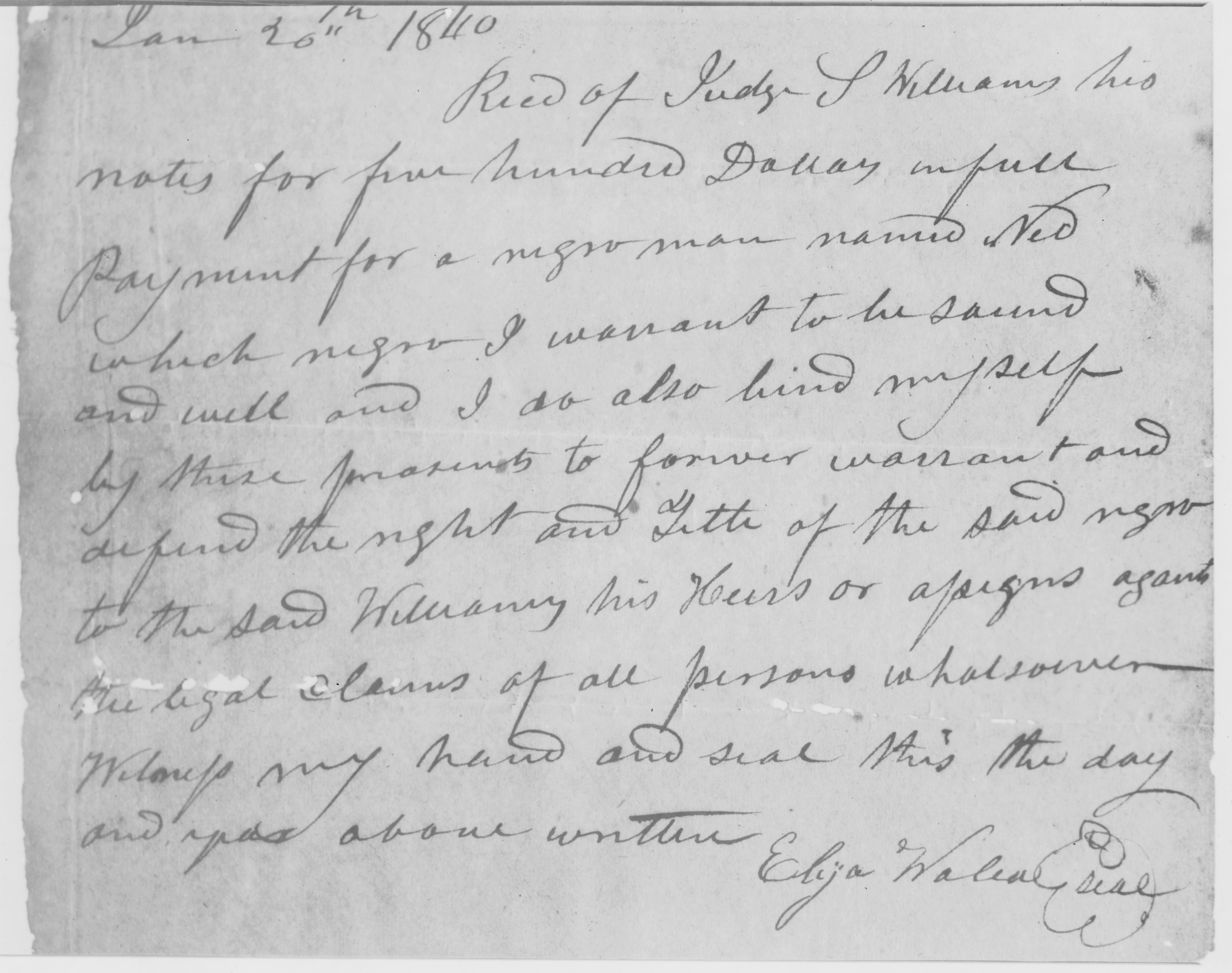 Receipt for $500.00 payment for black slave. Caption on item: Receipt given Judge S. Williams of Eufaula by Eliza Wallace in payment of $500.00 for a Negro man, Jan. 20, 1840. This paper is owned by Richard Malcolm McEachern, grandson of Judge Williams. "Recd of Judge S. Williams his notes for five hundred Dollars in full payment for a negro man named Ned which negro I warrant to be sound and well and I do bind myself by these presents to forever warrant and defend the right and Title of the said negro to the said Williams his heirs or assigns against the legal claims of all persons whatsoever. Witness my hand and seal this day and year above written. Eliza Wallace [seal]"